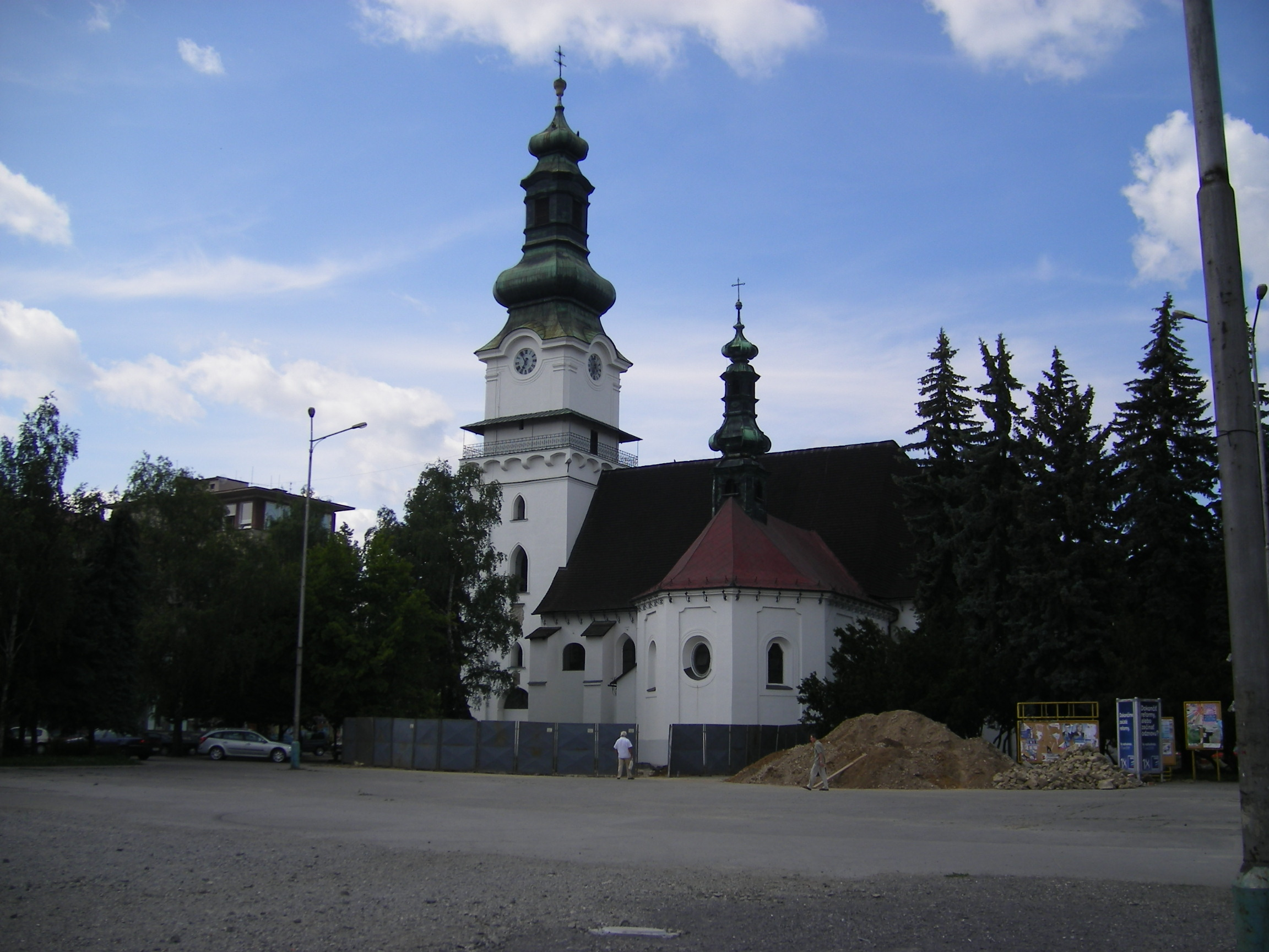 Zvolen - St. Elizabeth church